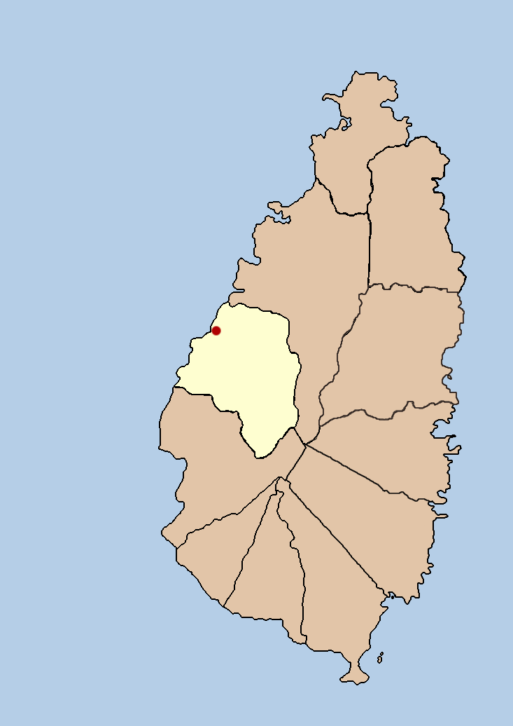 this is a political map showing the quarter of Anse La Raye on the island nation of Santa Lucia. I created it myself by using the GIMP to trace a public domain map that i found at the Perry-Castañeda Library Map Collection.